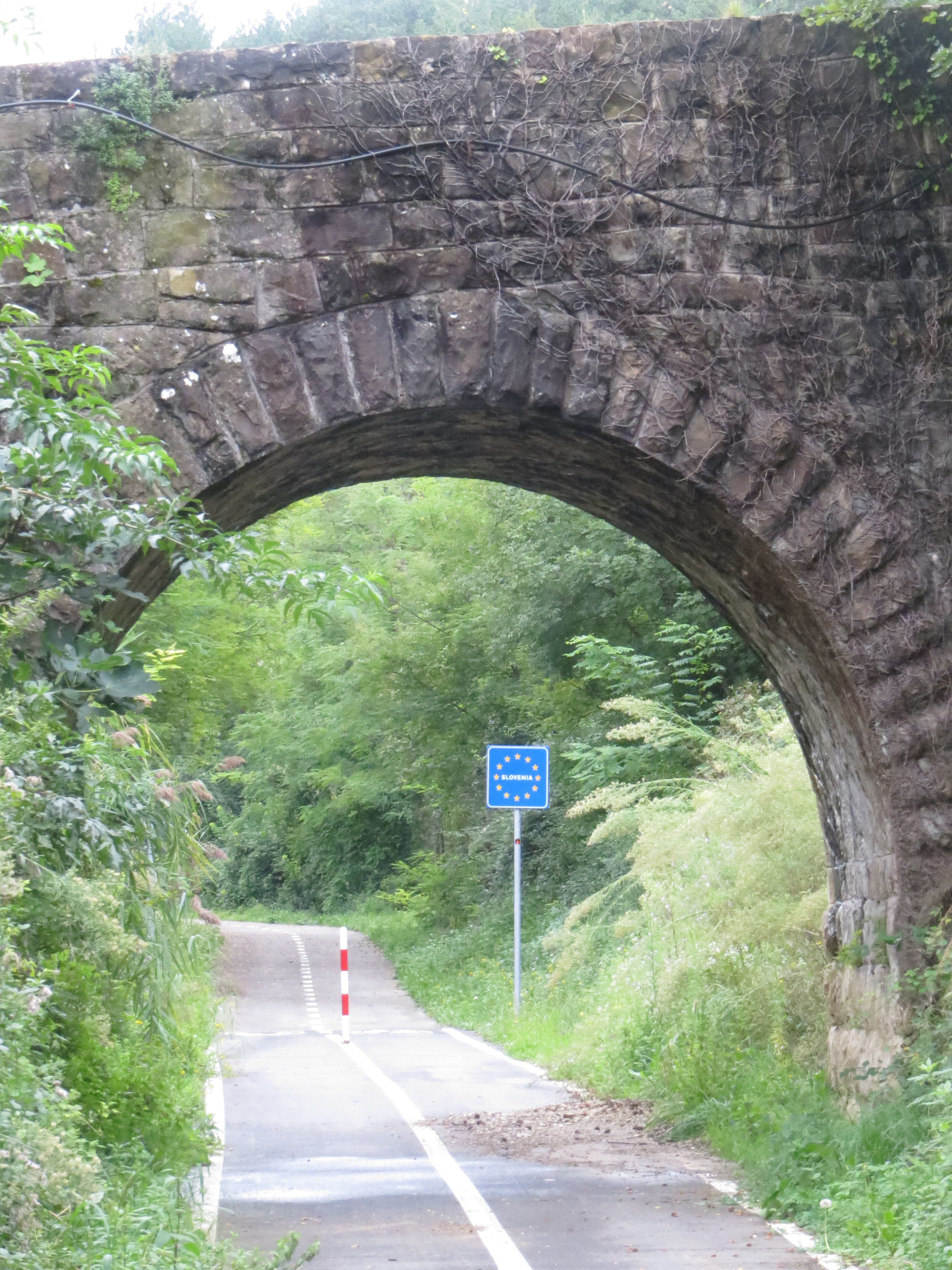 D-8 to Koper